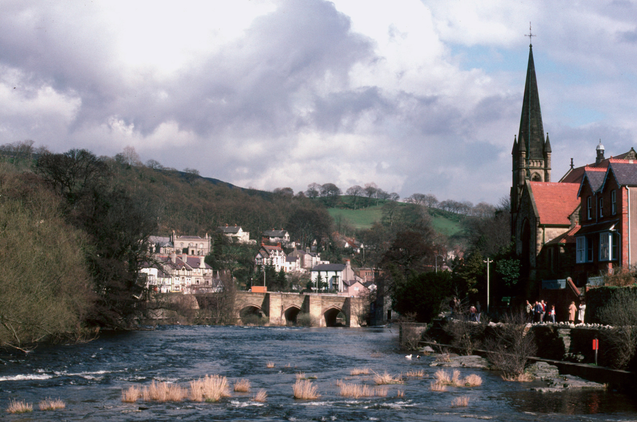 Town of Llangollen on the River Dee, located in north-east Wales